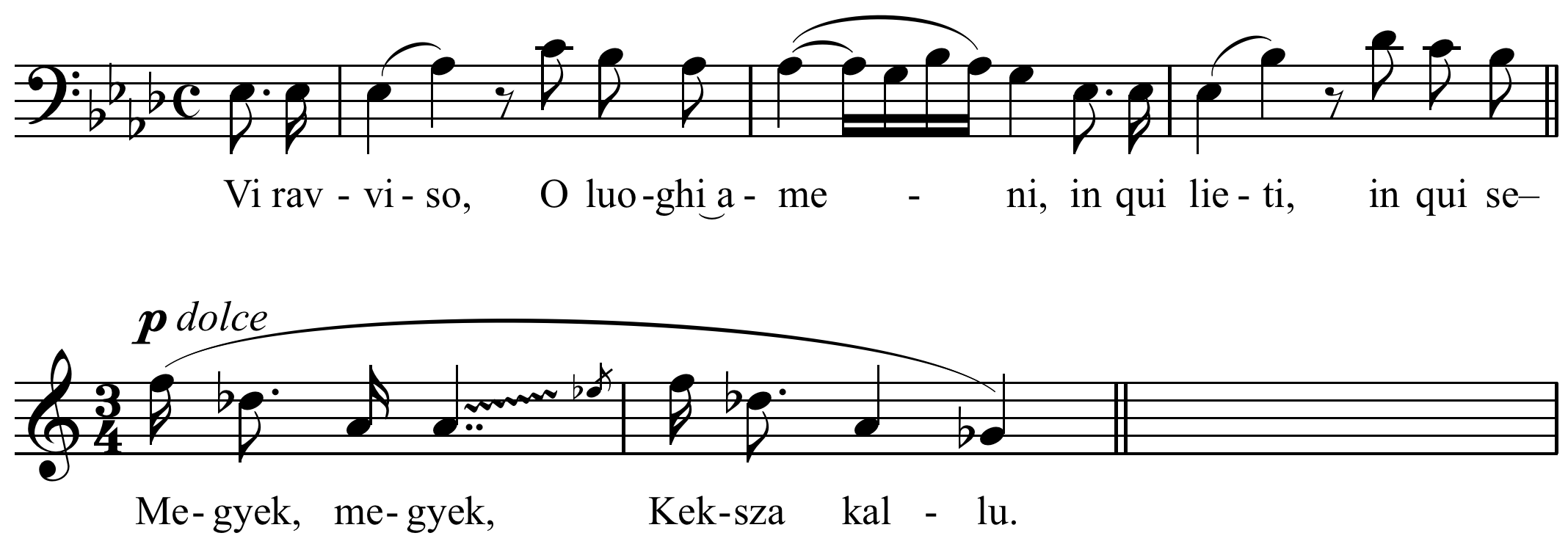 Two music examples of portamento, self-made. Top: Rodolfo's first aria in La sonnambula (1831), bottom: Judith's first line in Duke Bluebeard's Castle (1912)